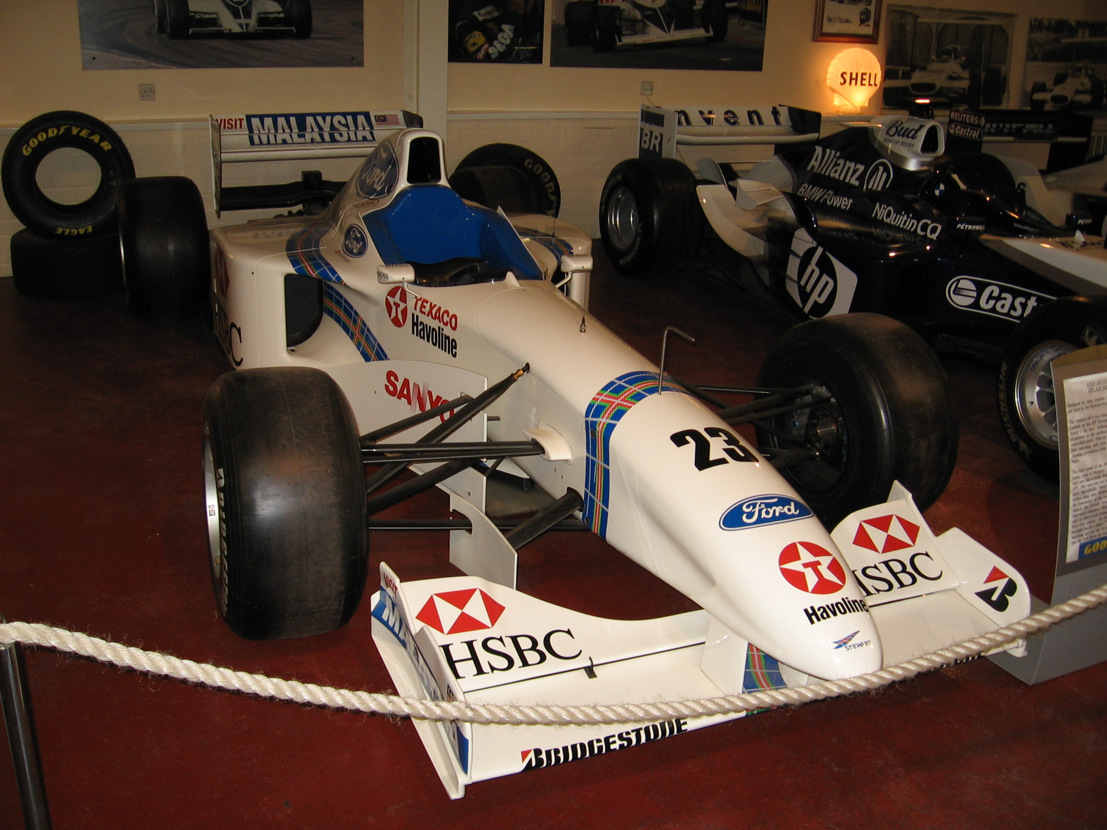 Stewart SF1, Driven by Jan Magnussen in stewart's debut season, 1997